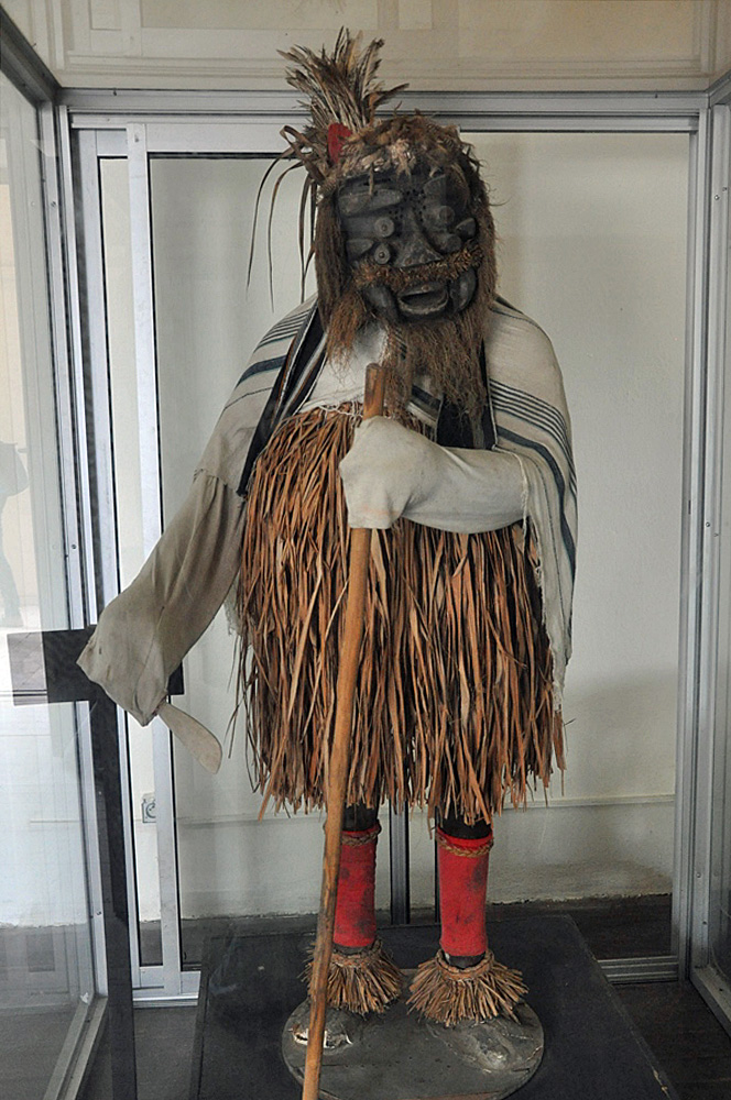 Ce masque guéré est exposé au Musée des Costumes de Grand Bassam. Sa marque, son balia de tiges de raphia. Une fois par an, il sort à la poursuite des populations qu'il est chargé de corriger avec son balai. This is an image of Cultural Fashion or Adornment from Ivory Coast